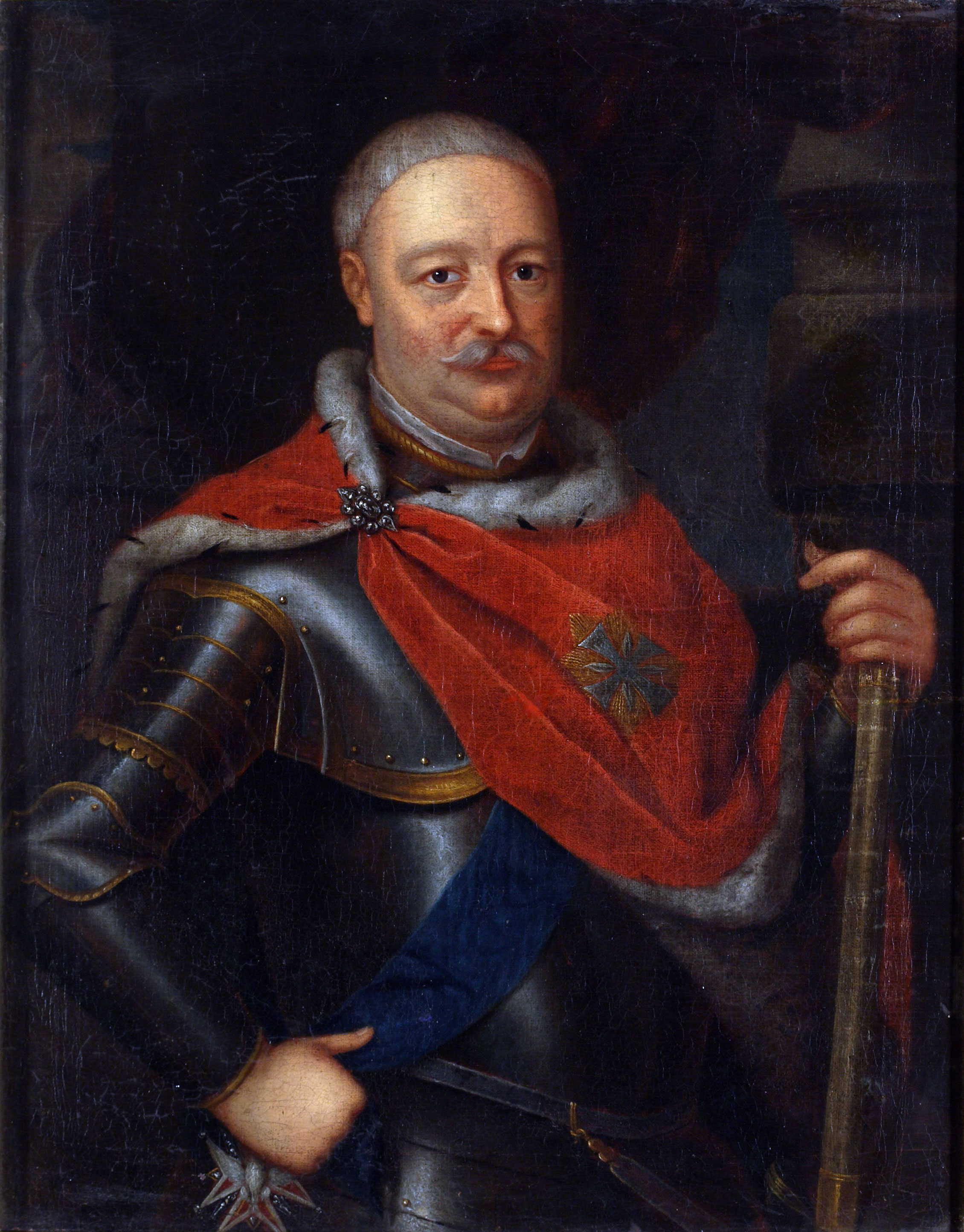 Portrait of Karol Stanisław Radziwiłł (1669–1719)